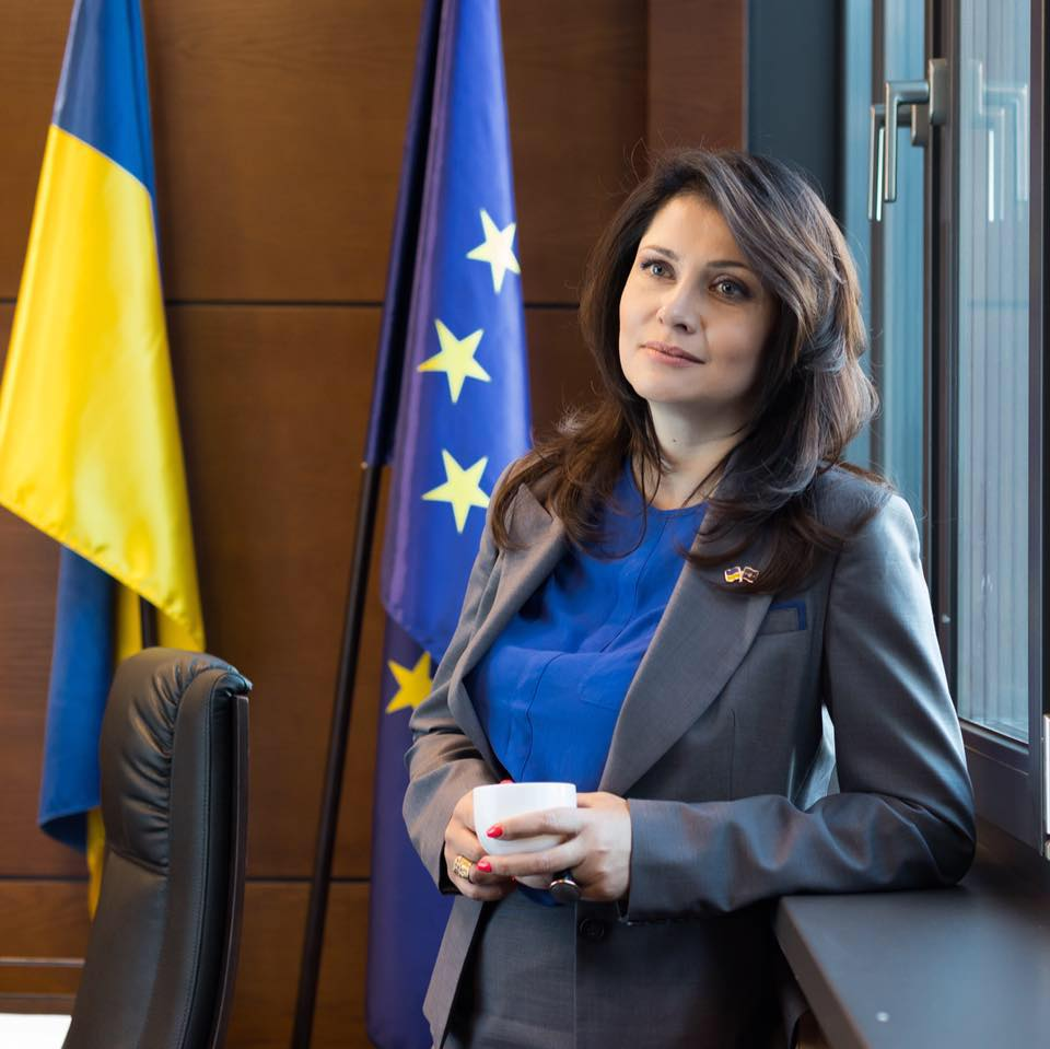 Iryna Friz, the member of the Verkhovna Rada of Ukraine of the eighth convocation